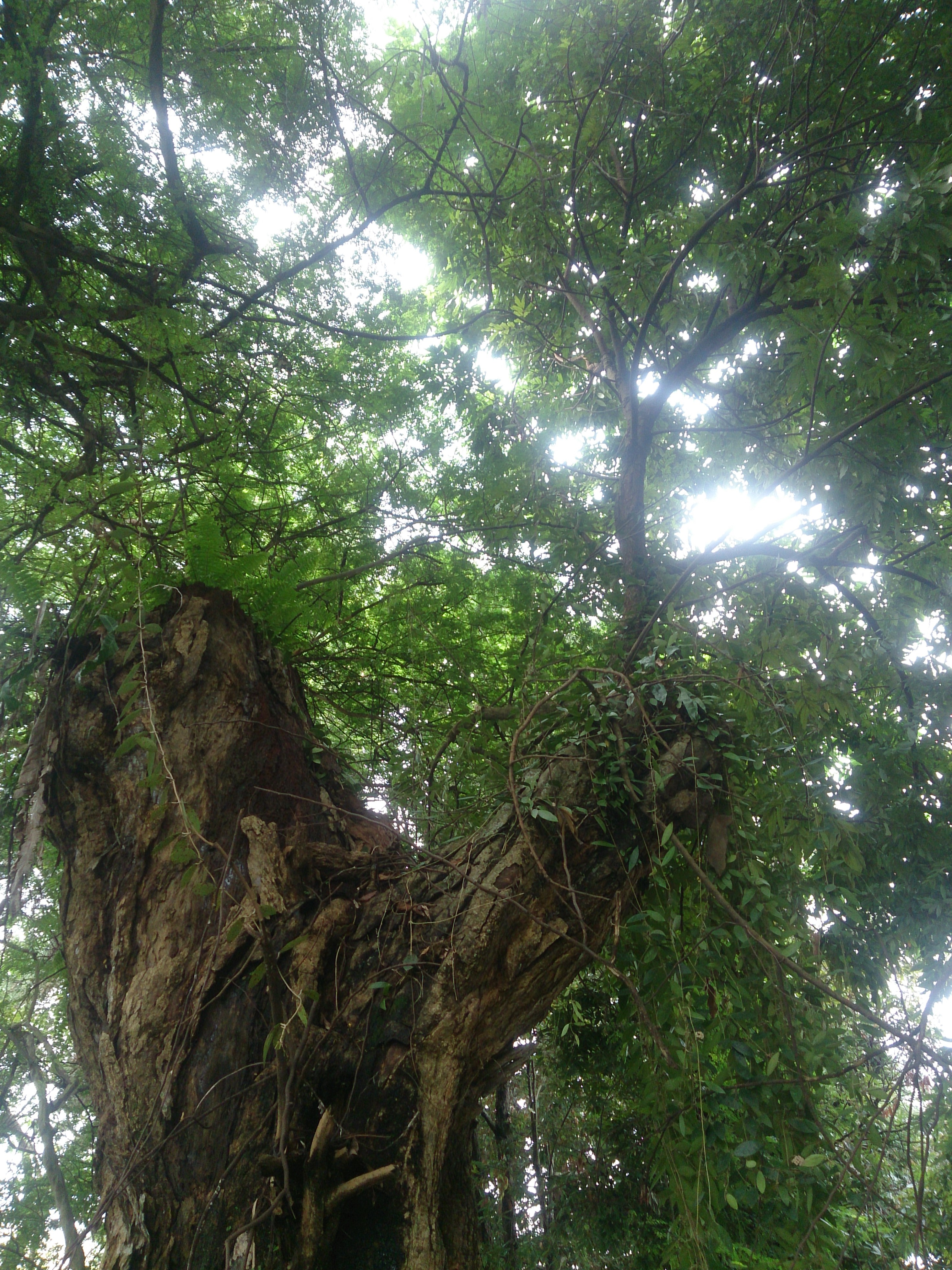 A "heritage tree" at the Japanese Cemetery Park (Chuan Hoe Avenue, Singapore)